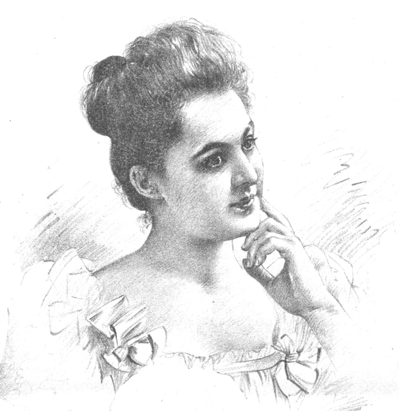 Portrait of Elvira Clemens (1878–1902), Austrian actress